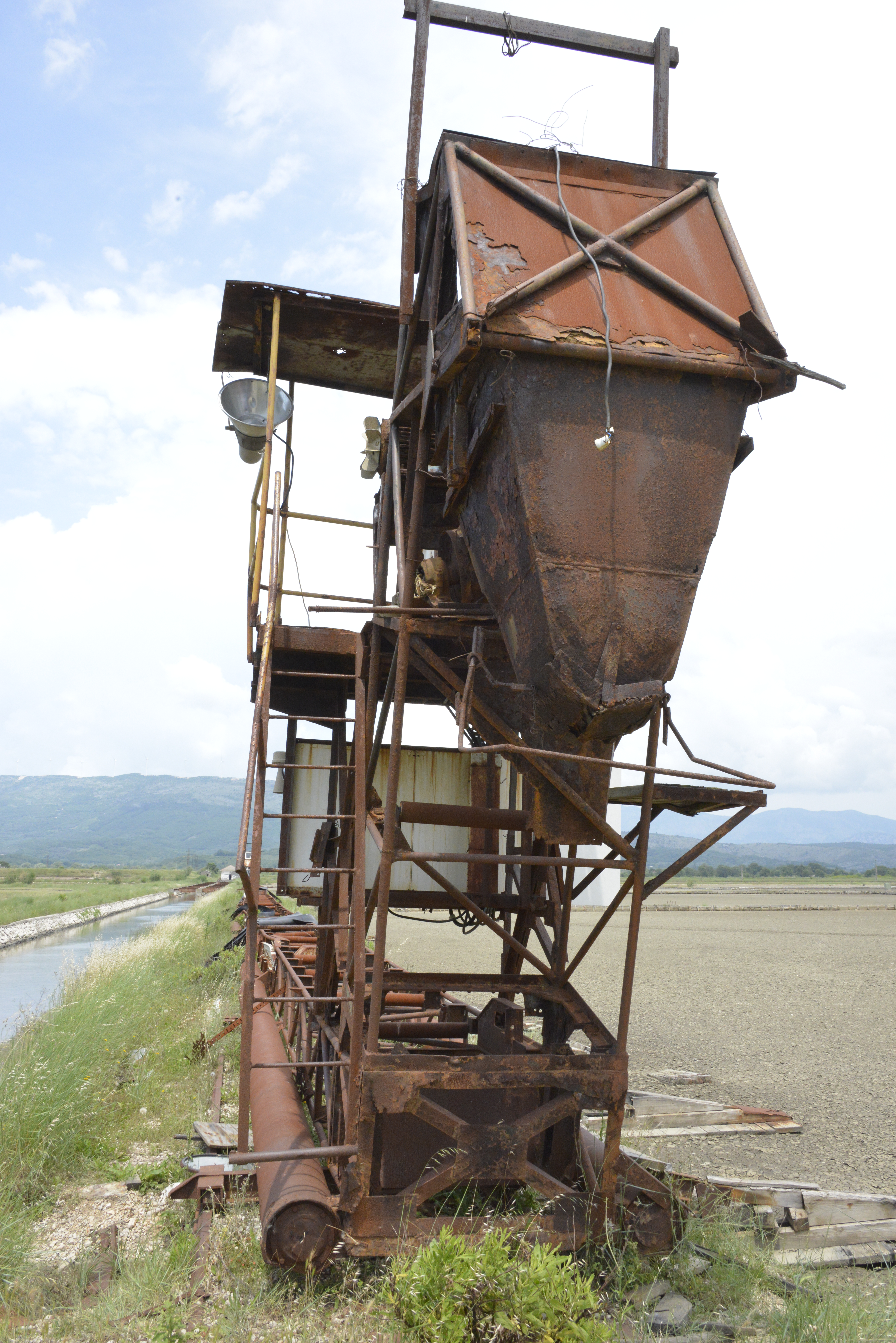 Ulcinj Salinas, summer 2019